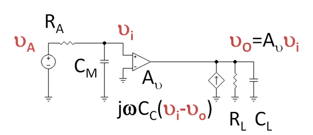 Op Amp circuit with feedback capacitor transformed using Miller theorem